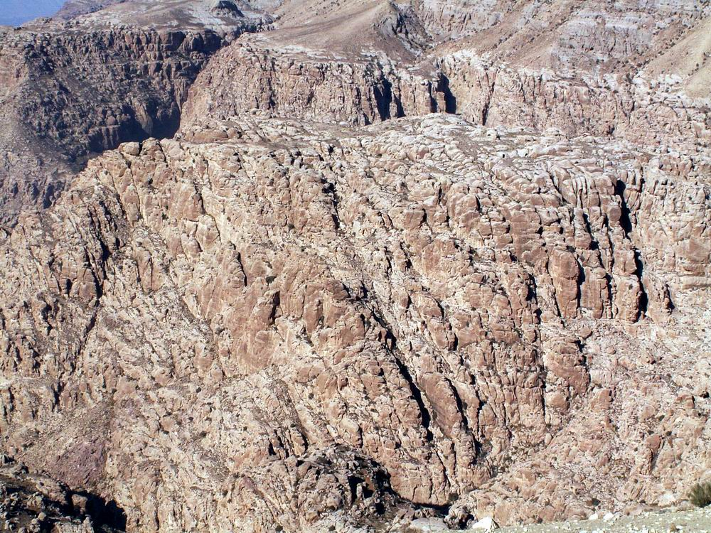 The historical site of Sela, the capital of Edom, seen from the village of Sela in modern-day Jordan above it.